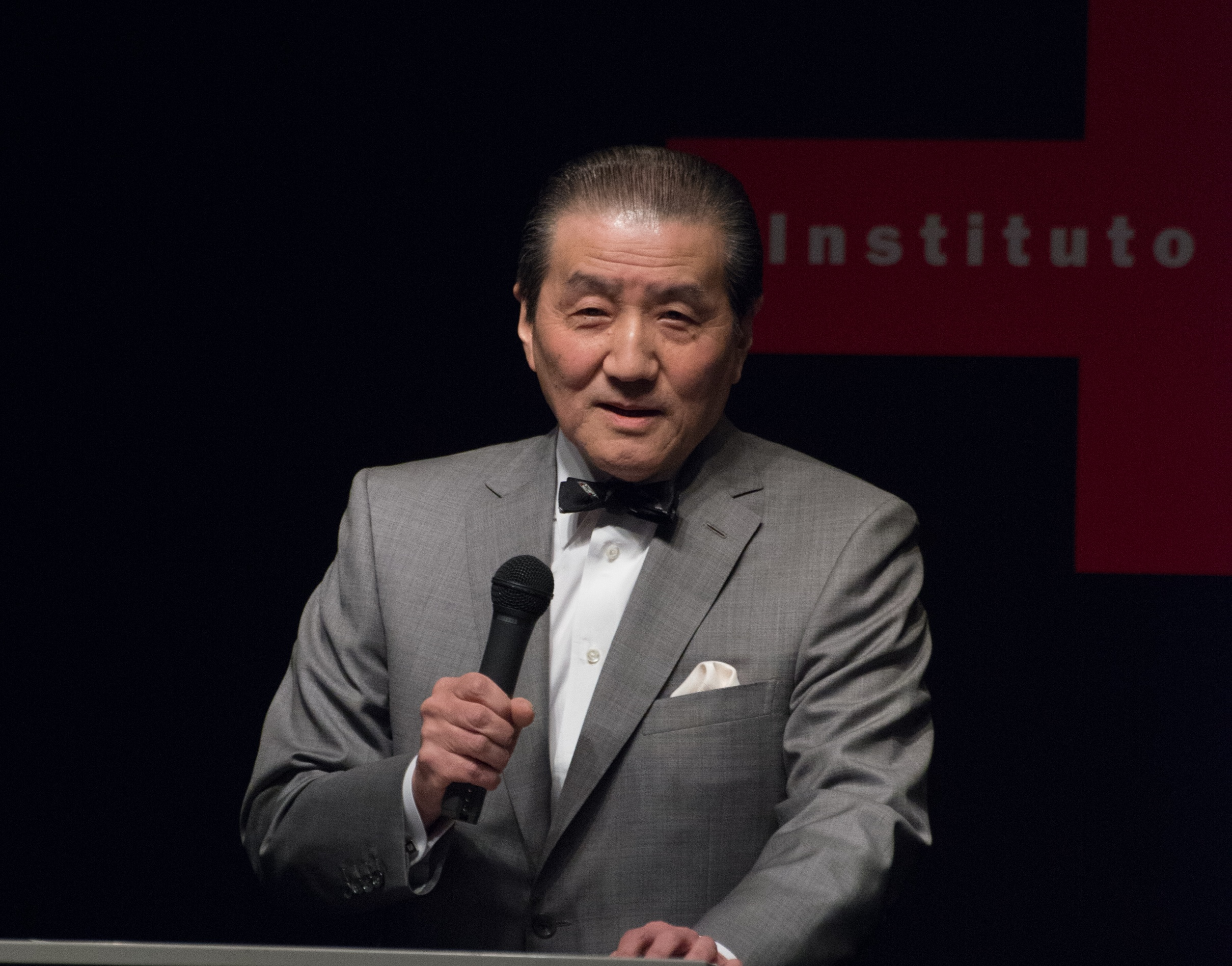 Shigyo Sosyu at Institute Cervantes